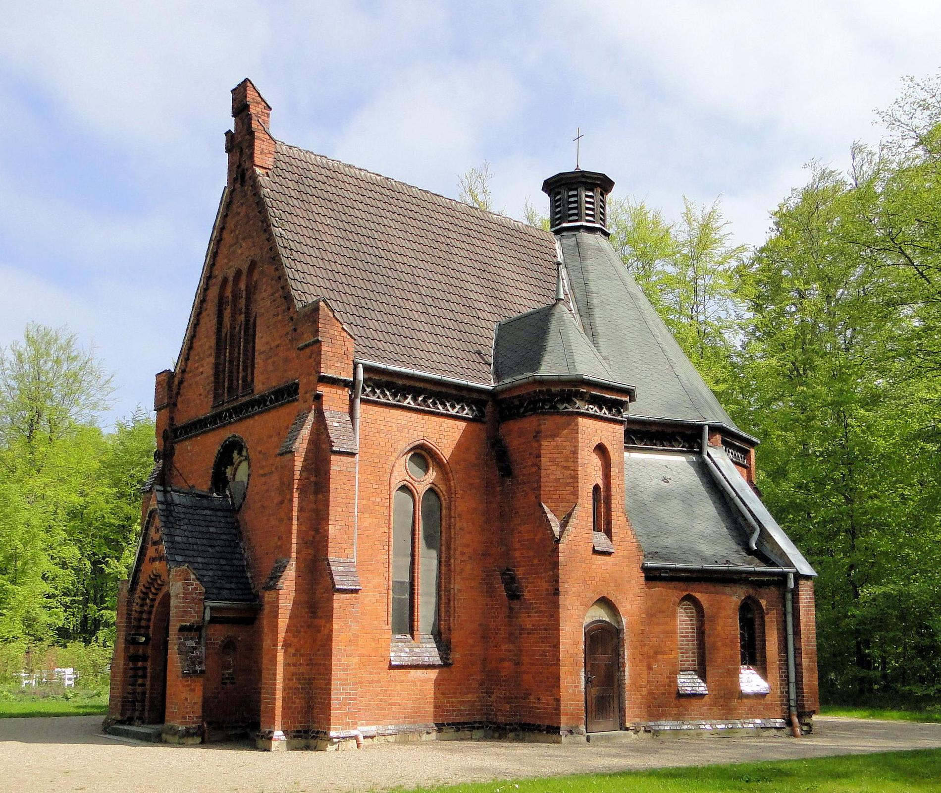 Chapel in forest in Heiligendamm, disctrict Bad Doberan, Mecklenburg-Vorpommern, Germany